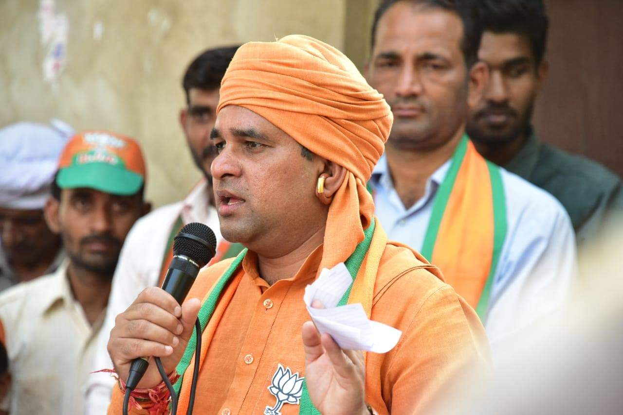 Chief of Nath sect